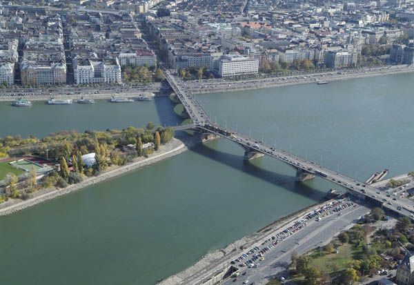 Margit Bridge, Hungary, aerial photography